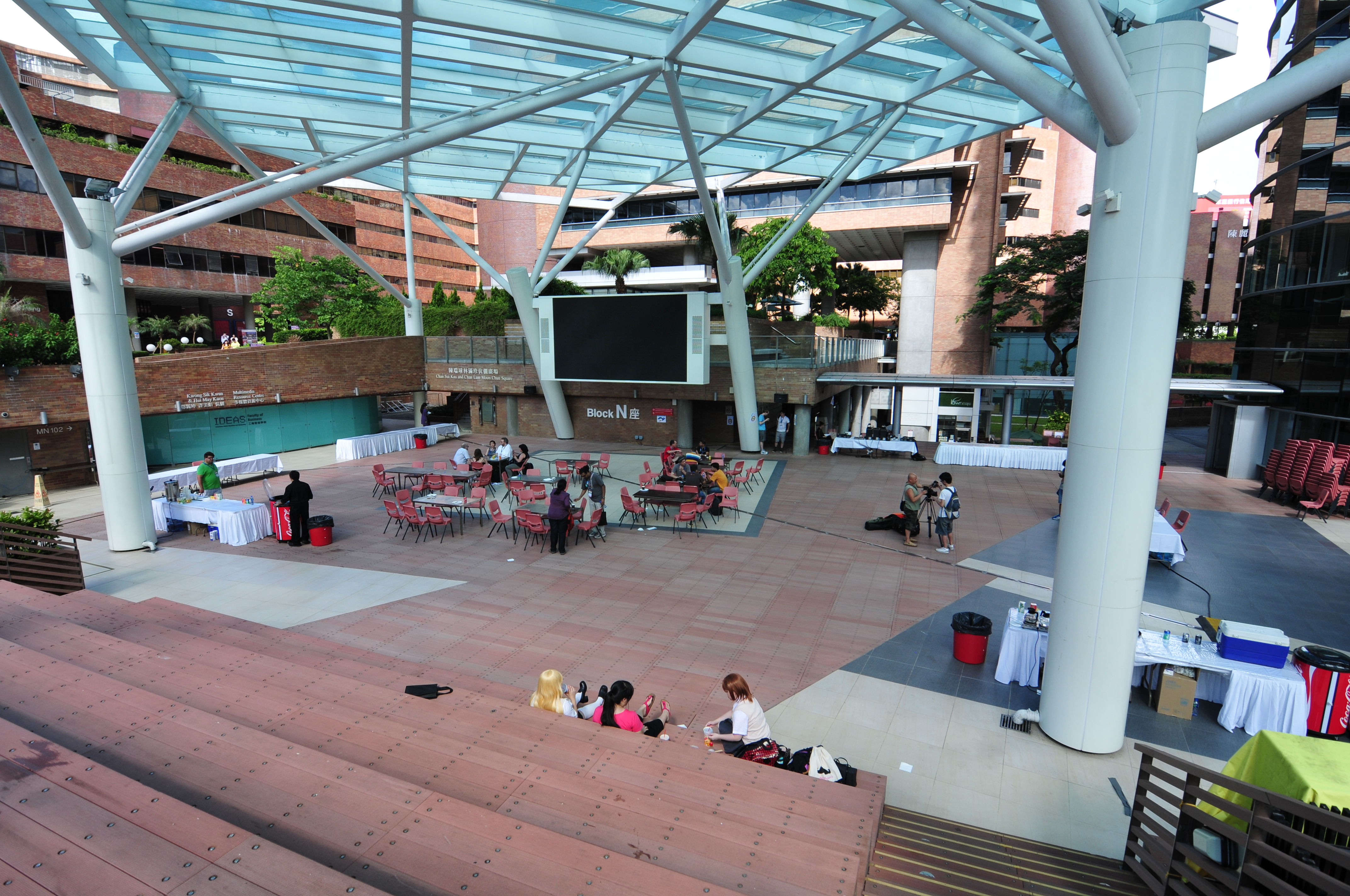 Hongkong PolyU Campus in Hung Hom